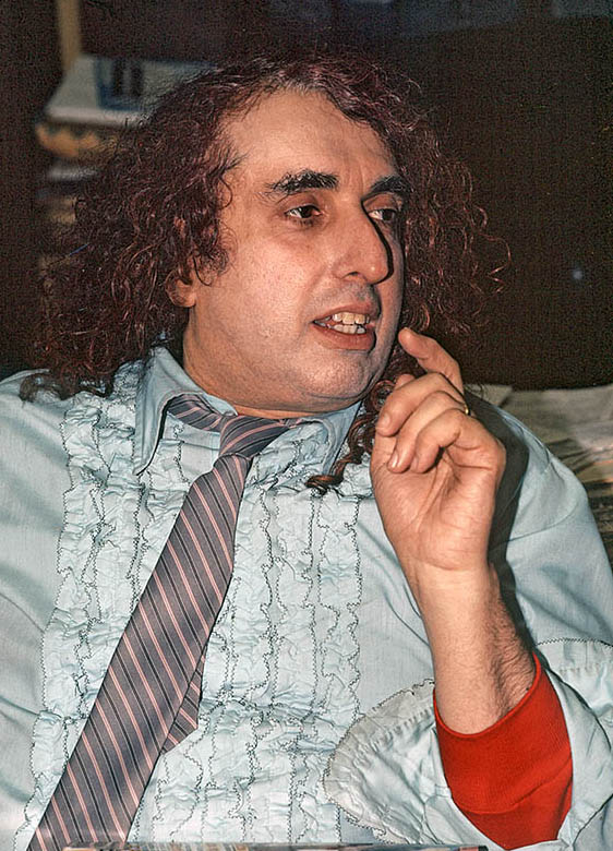 Tiny Tim (Herbert Khaury)